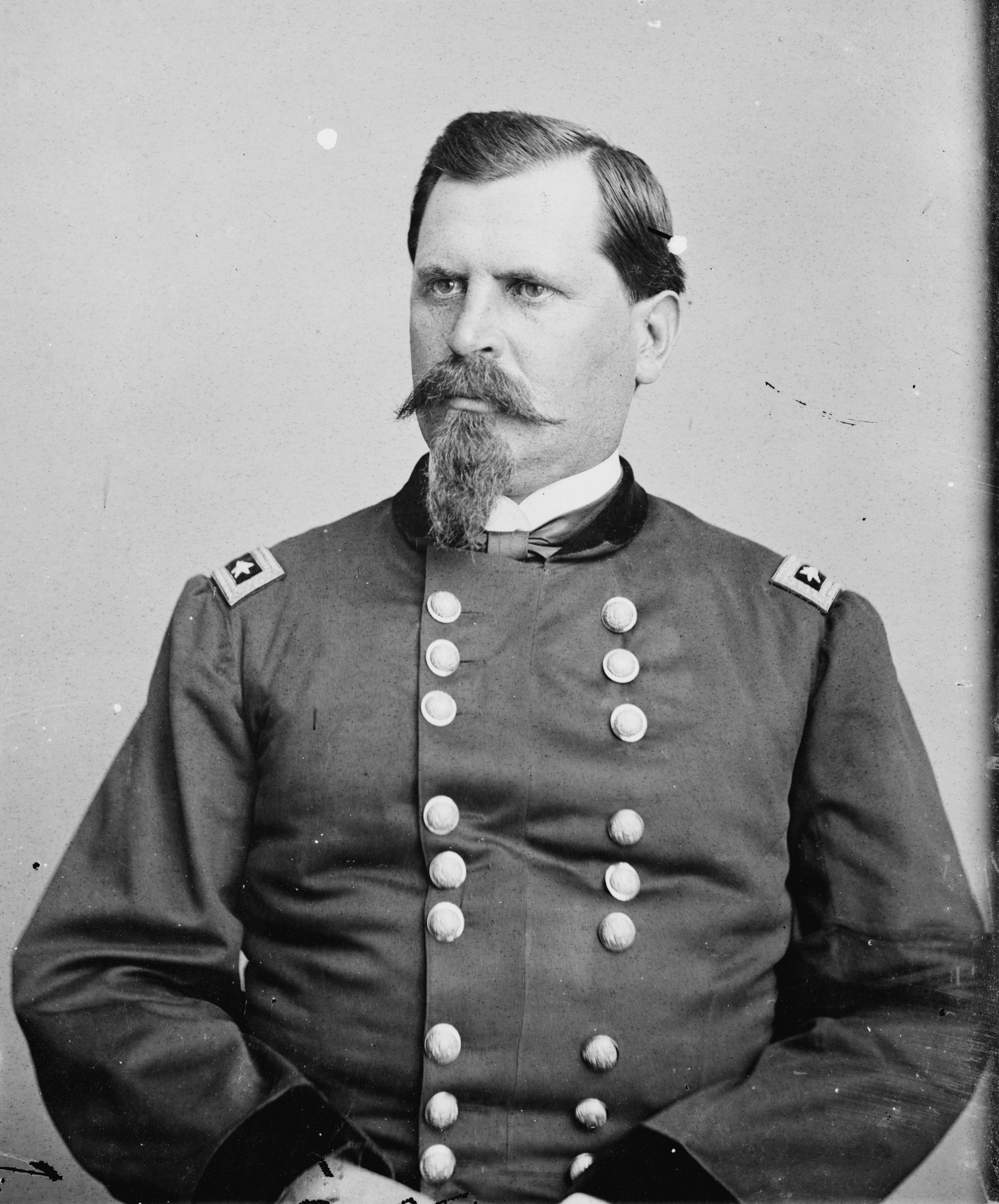 William Babcock Hazen. Library of Congress description: "Gen. W. B. Hazen, U.S.A."